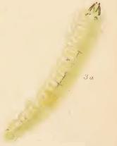 Stainton’s Natural History of the Tineina (1855–1873): Phyllonorycter ulmifoliella larva